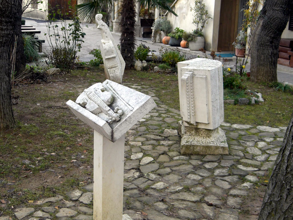 Violin, cello and accordion sculptures in Roč, Istria, Croatia